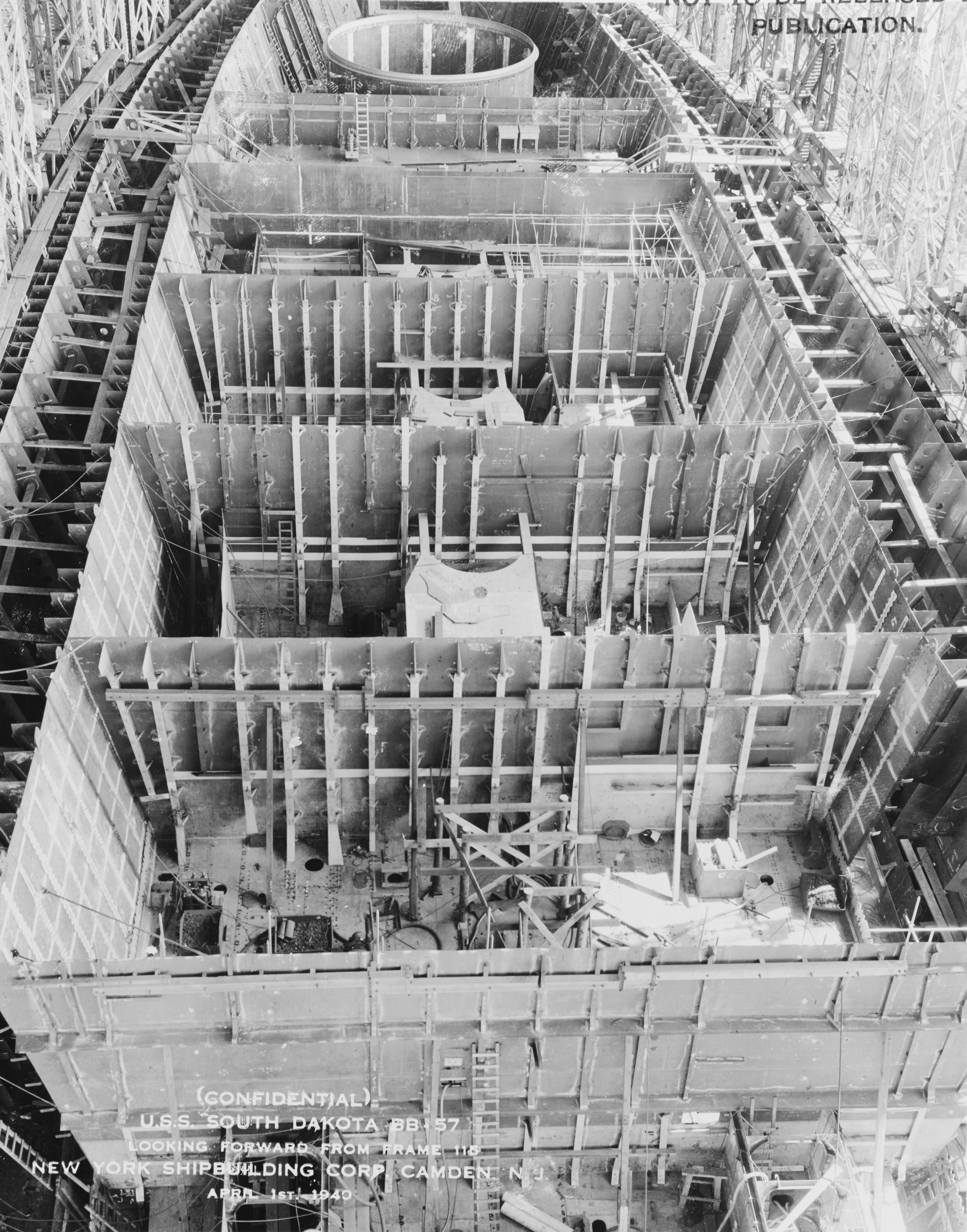 Under construction at the New York Shipbuilding Corporation shipyard, Camden, New Jersey, 1 April 1940. This view, taken looking forward from Frame # 115, shows the ship's interior amidships, including six major watertight transverse bulkheads and anti-torpedo longitudinal bulkheads along the sides. Note the inward slope of the side bulkheads, corresponding to the slope of the battleship's side armor. Photograph from the Bureau of Ships Collection in the U.S. National Archives.